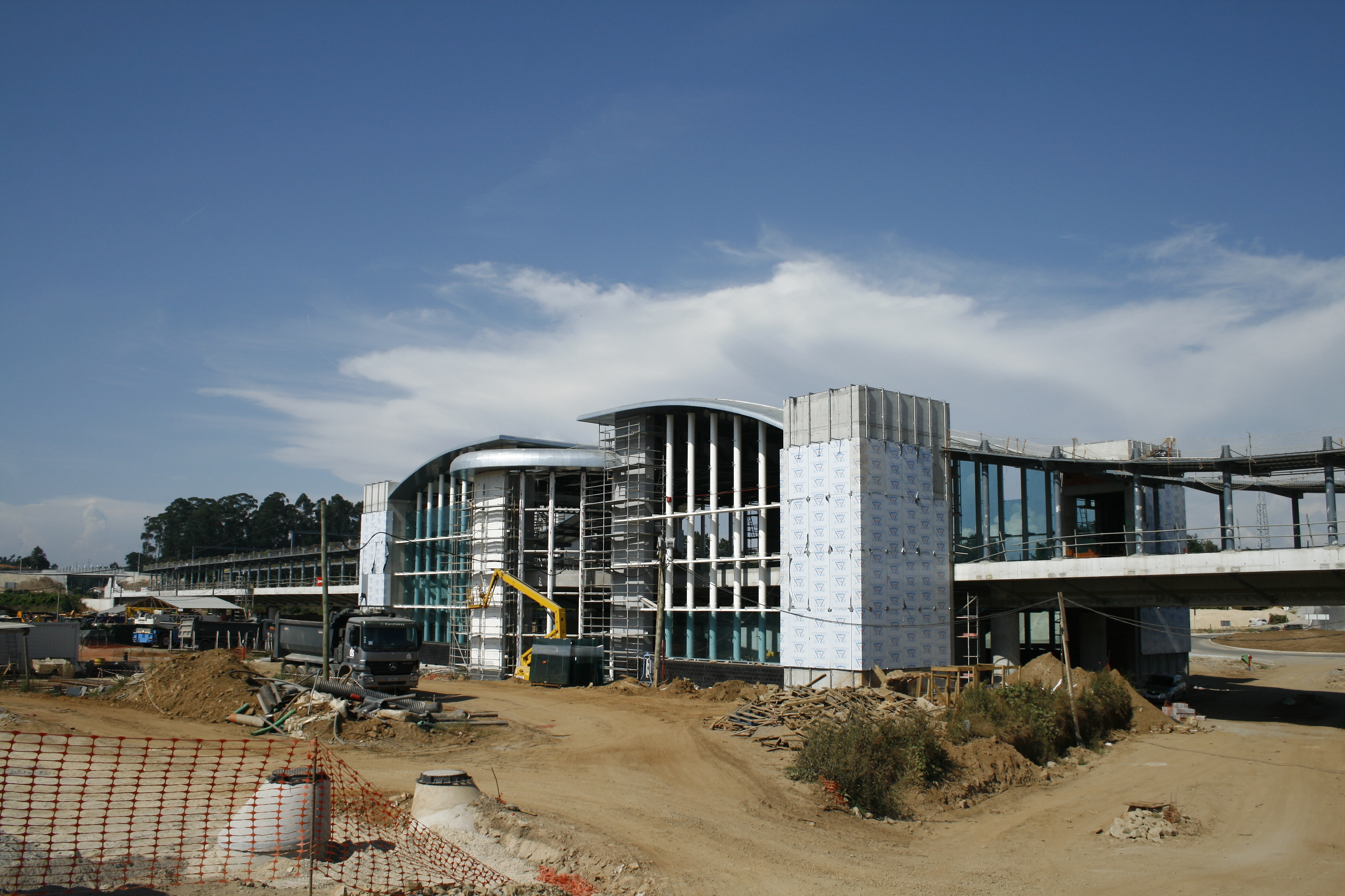 Trofa train station, in Portugal, under construction in June 2010